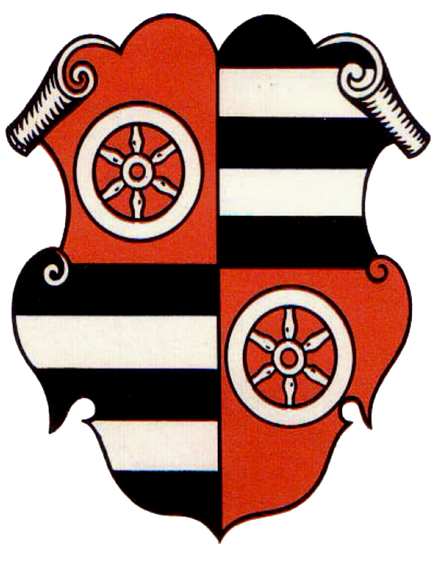 Johann Adam von Bicken